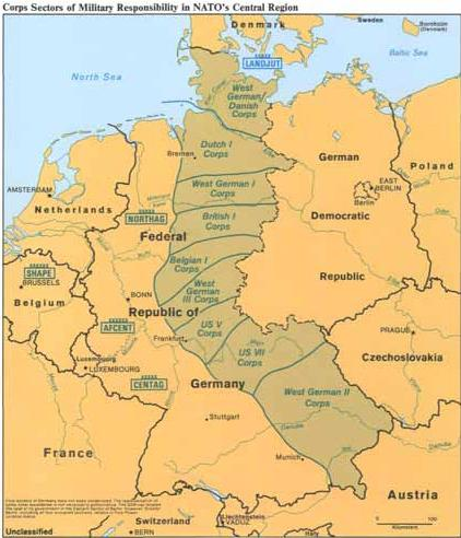 Corps sectors of military responsability in NATO's central region